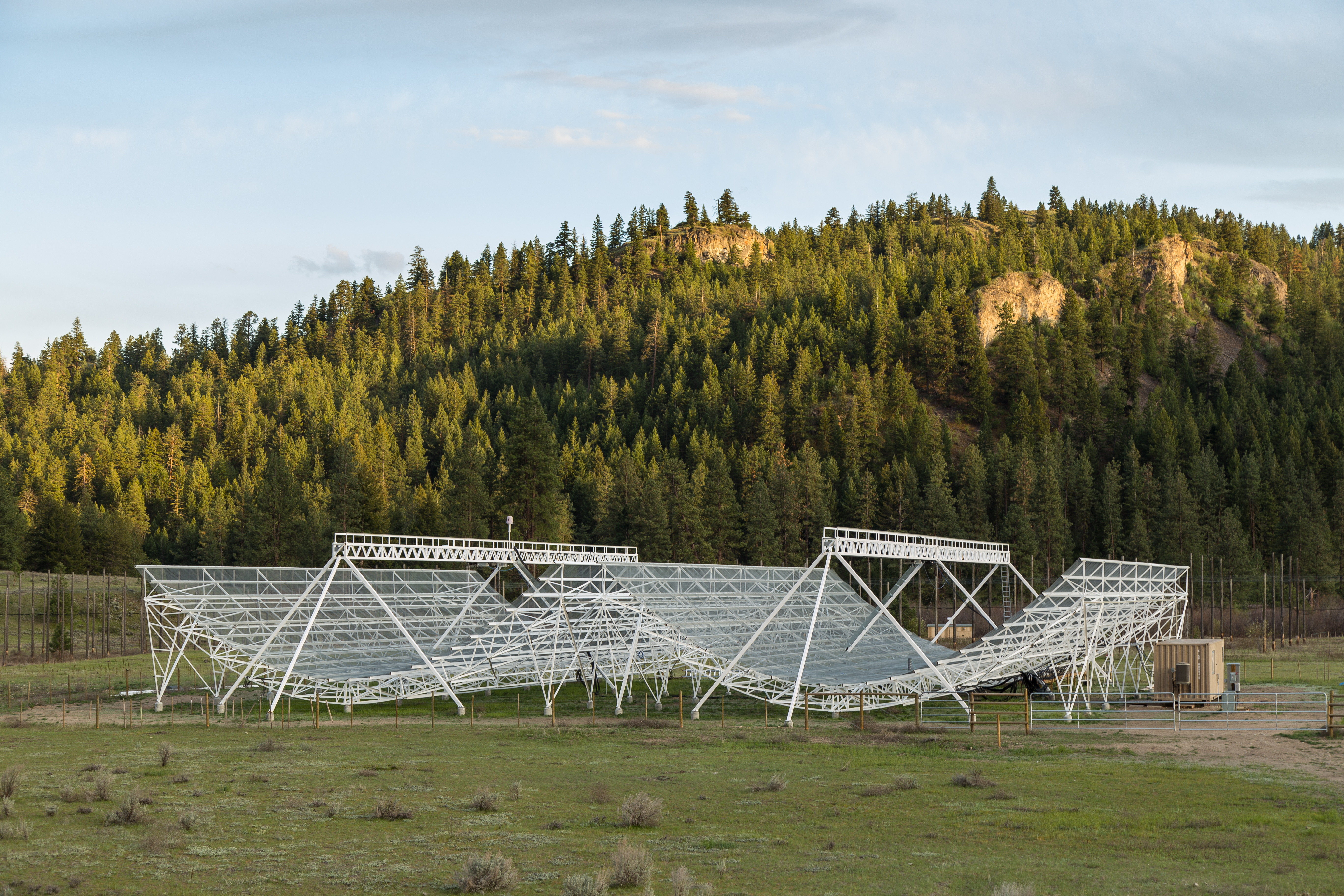 The CHIME Pathfinder telescope at the Dominion Radio Astrophysical Observatory near Penticton, British Columbia, Canada. The Pathfinder is a prototype for the full CHIME telescope.